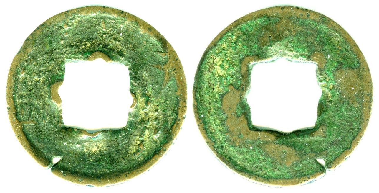 China, wu zhu coin showing traces of production process, probably Han dynasty